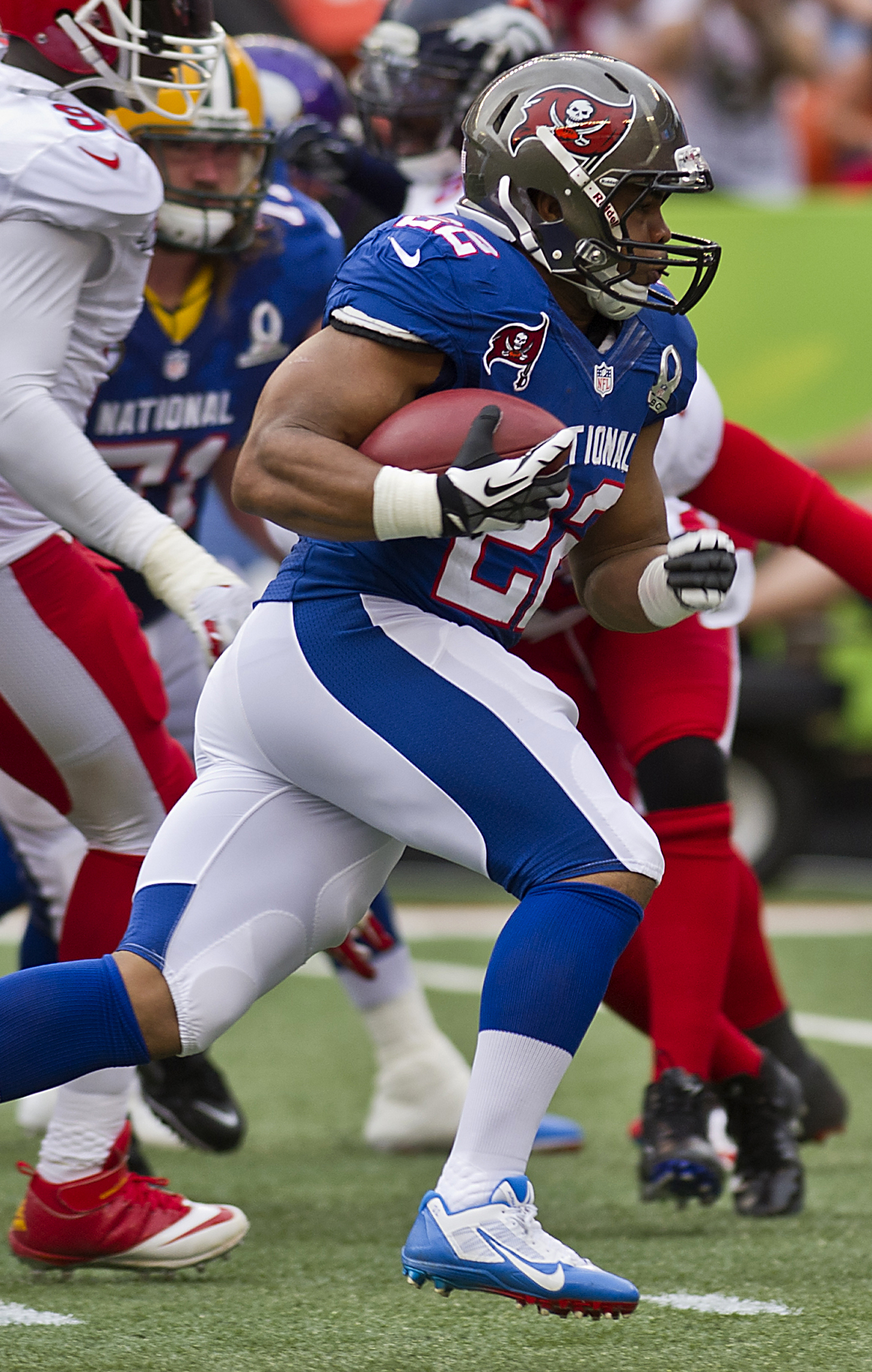 Doug Martin (#22) at the 2013 Pro Bowl